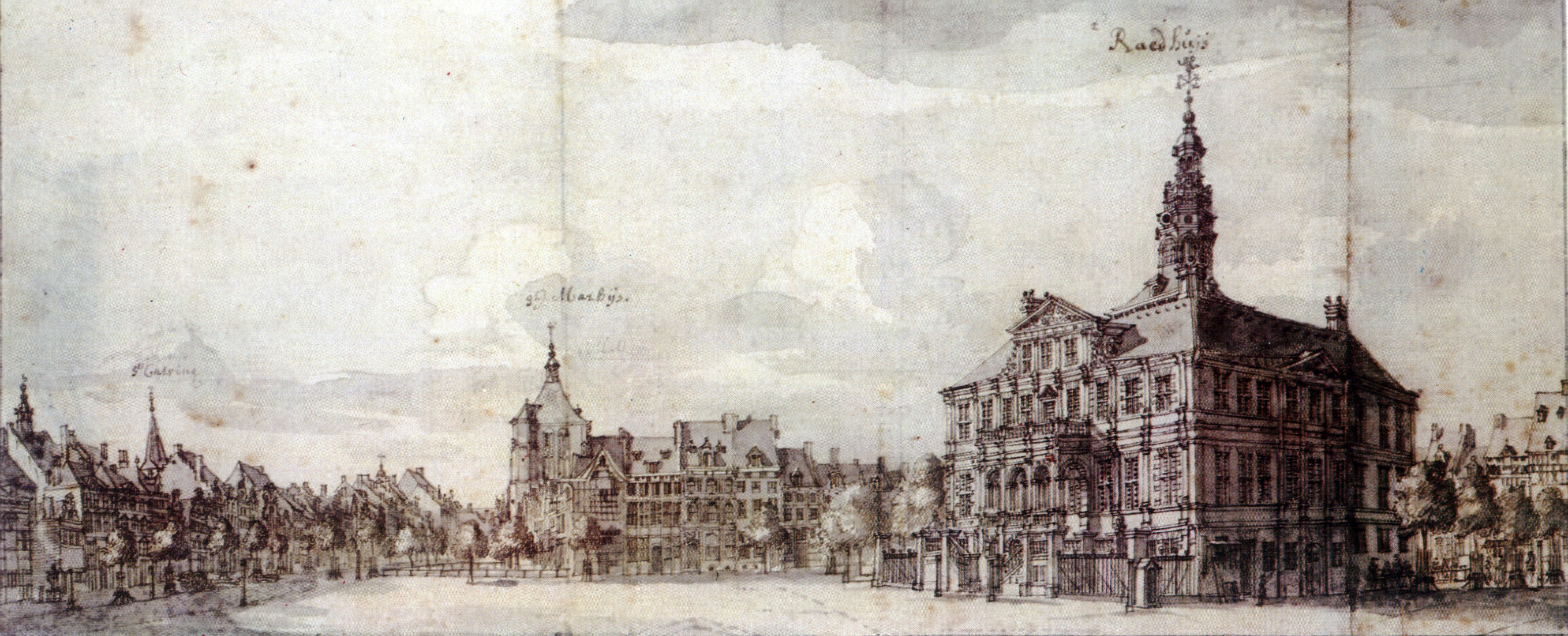 Maastricht, the Netherlands. View of the Markt (market square) and town hall. Drawing attributed to Jan de Beijer, ca 1740, in the collection of the Museum Boymans Van Beuningen, Rotterdam.